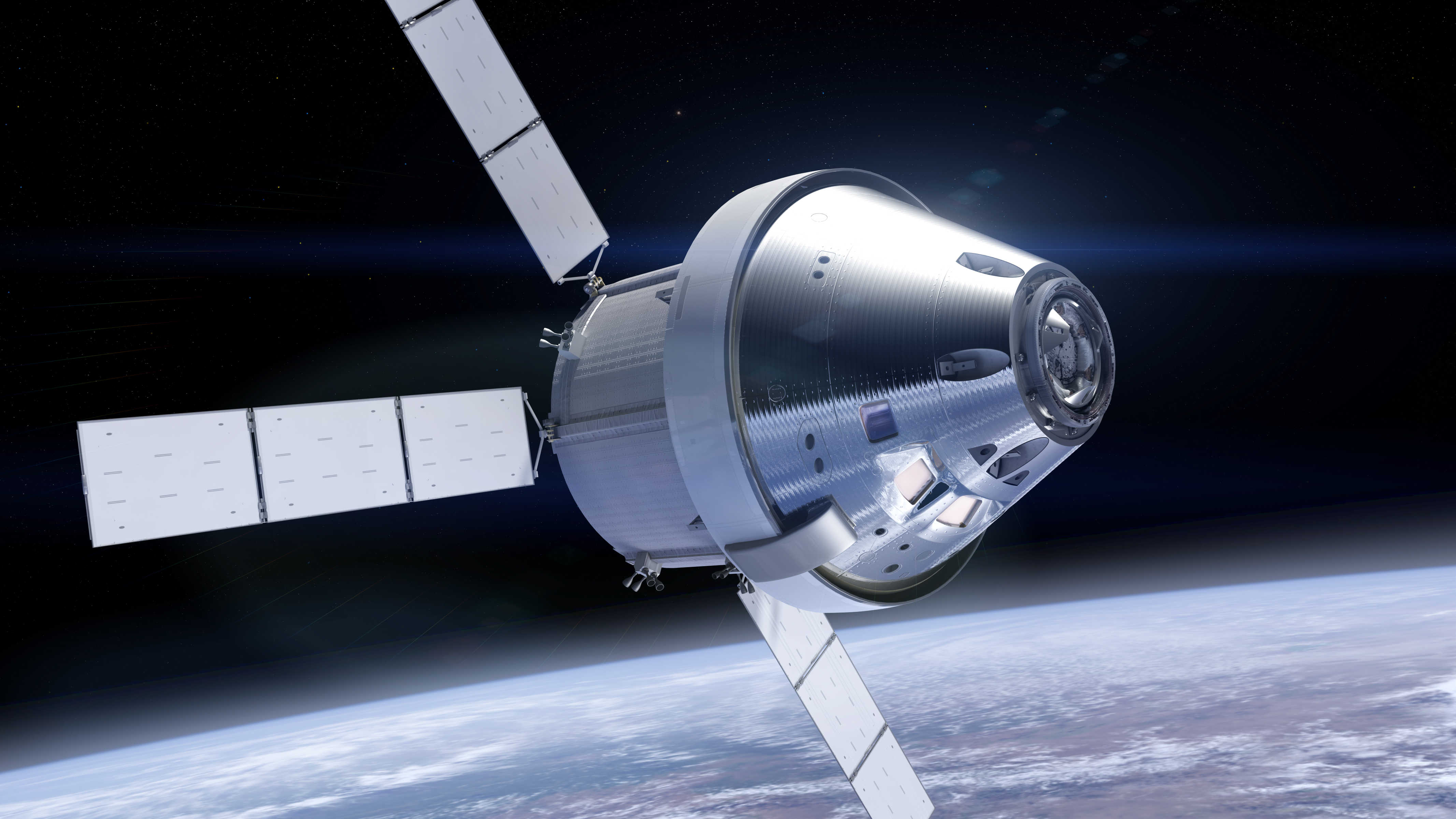 NASA’s Orion spacecraft will carry astronauts further into space than ever before using a module based on Europe’s Automated Transfer Vehicles (ATV). The ATV-derived service module, sitting directly below Orion’s crew capsule, will provide propulsion, power, thermal control, as well as supplying water and gas to the astronauts in the habitable module. The first Orion mission will be an uncrewed lunar flyby in 2017, returning to Earth’s atmosphere at 11 km/s – the fastest reentry ever.